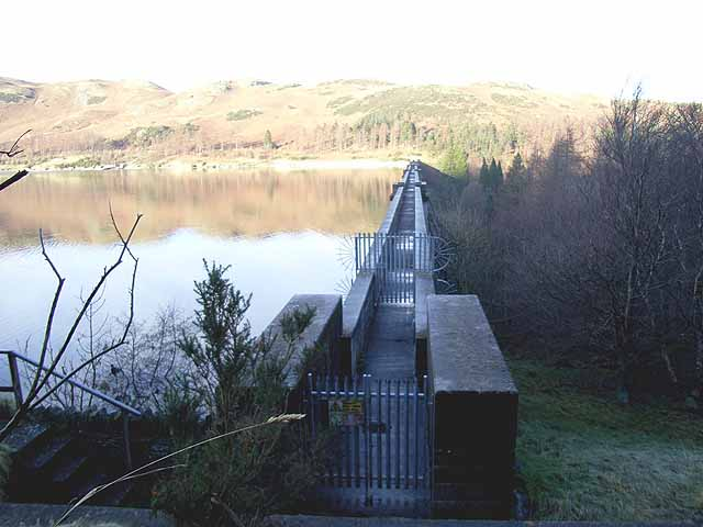 Top of Haweswater Dam. The construction of the dam to provide drinking water for Manchester was highly controversial, as it necessitated the drowning of two hamlets. The enabling legislation was passed in 1919, but construction was not commenced until 1930, with completion in 1940 although it took a further two years for the reservoir to fill completely. The dam (when the reservoir is full) raised the level of the existing lake by 29 metres, and extended the surface area of the lake to three times its previous size. Unusually a flume runs along the top of the dam, and unlike most dams there is no path across the top. Even if it was permitted, anyone attempting to pick their way along the top of the dam would need nerves of steel!